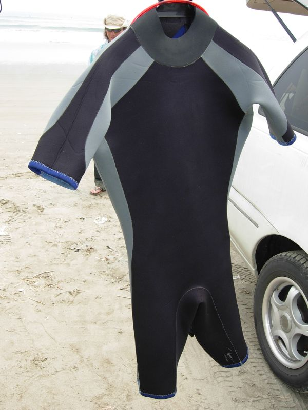 A shorty wetsuit.